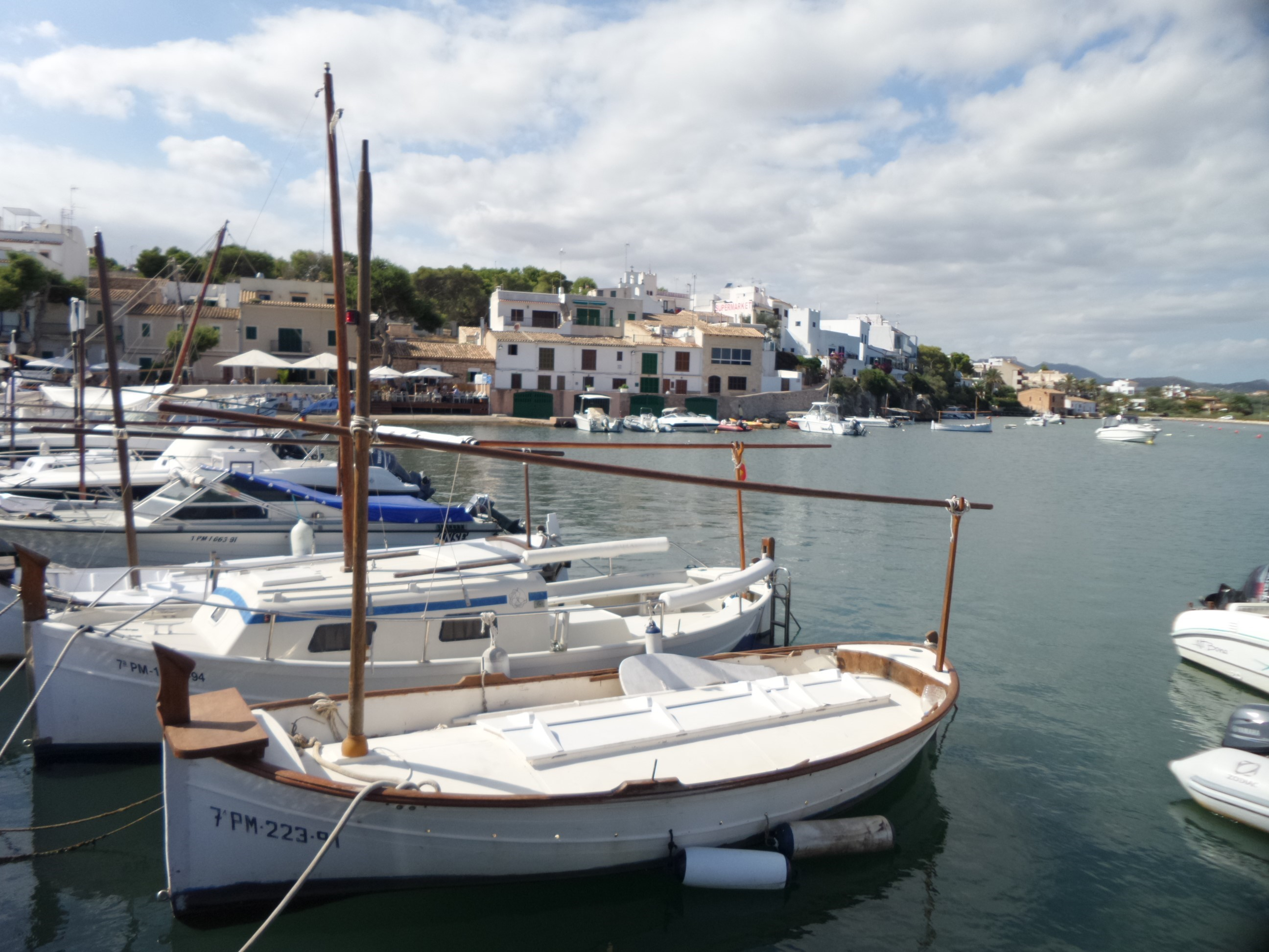 Portopetro